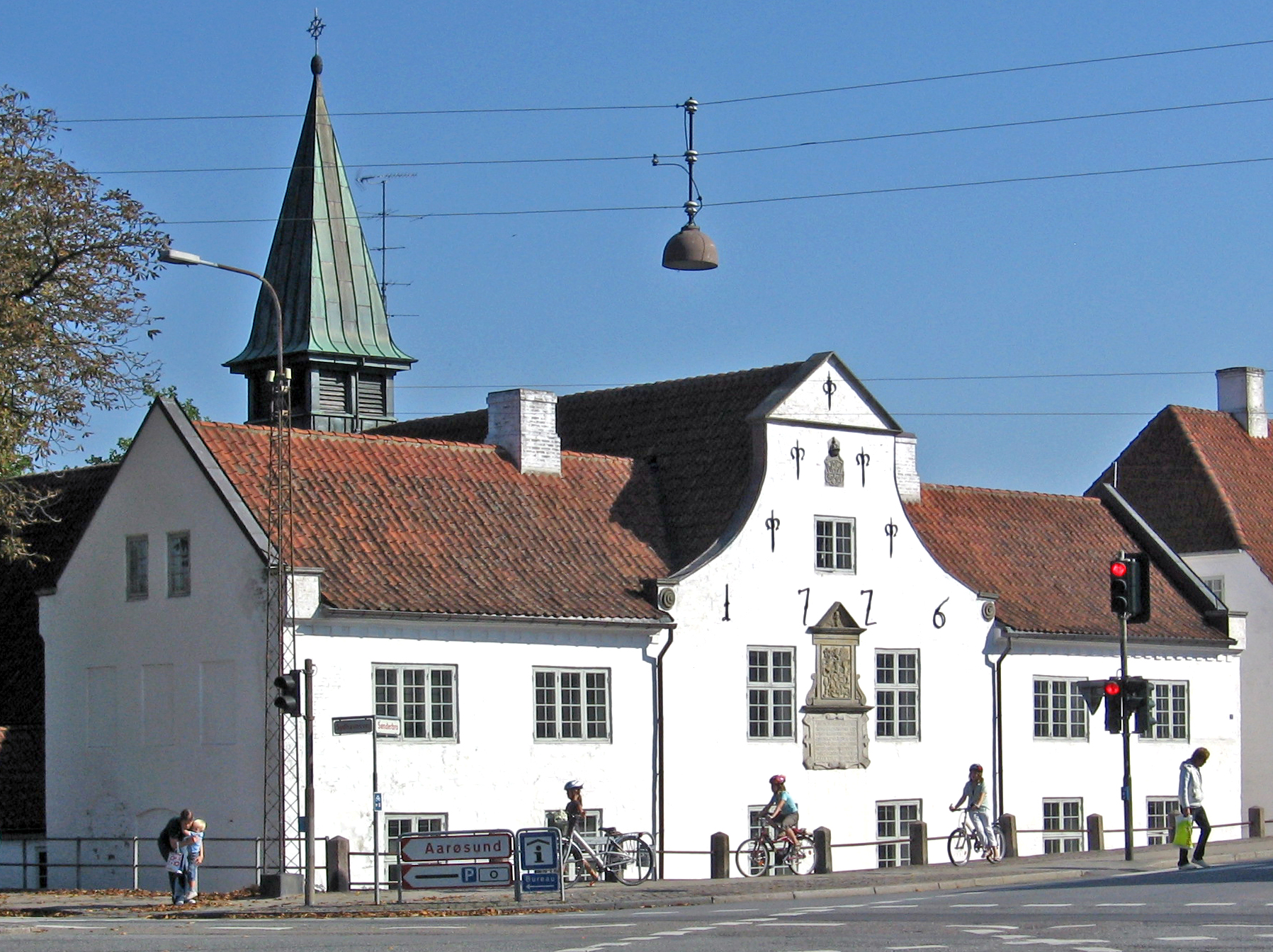 Hertug Hans Church Haderslev Denmark. Photo by author Jens Christensen